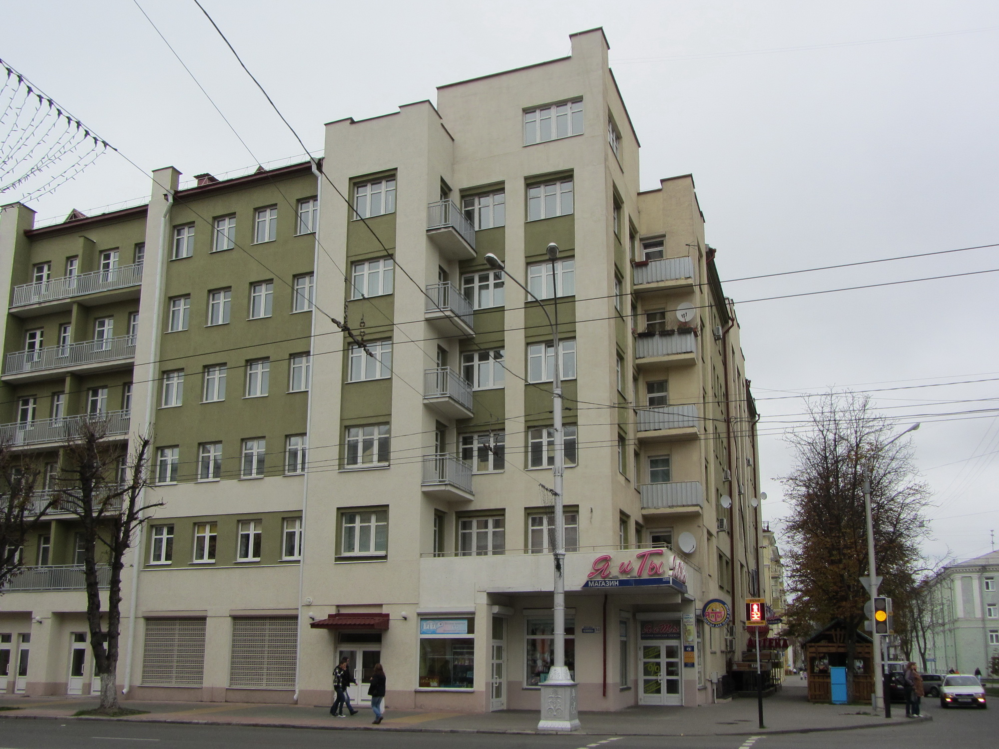 Беларуская (тарашкевіца): Былы «Дом-камуна». г. Гомель This is a photo of Belarusian heritage monument. Reference number: 312Г000049 ( WLM)